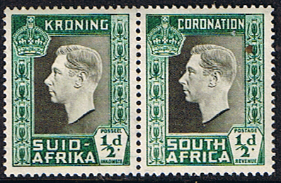 Stamps of South Africa, George VI coronation issue, 0,5d, 1937.